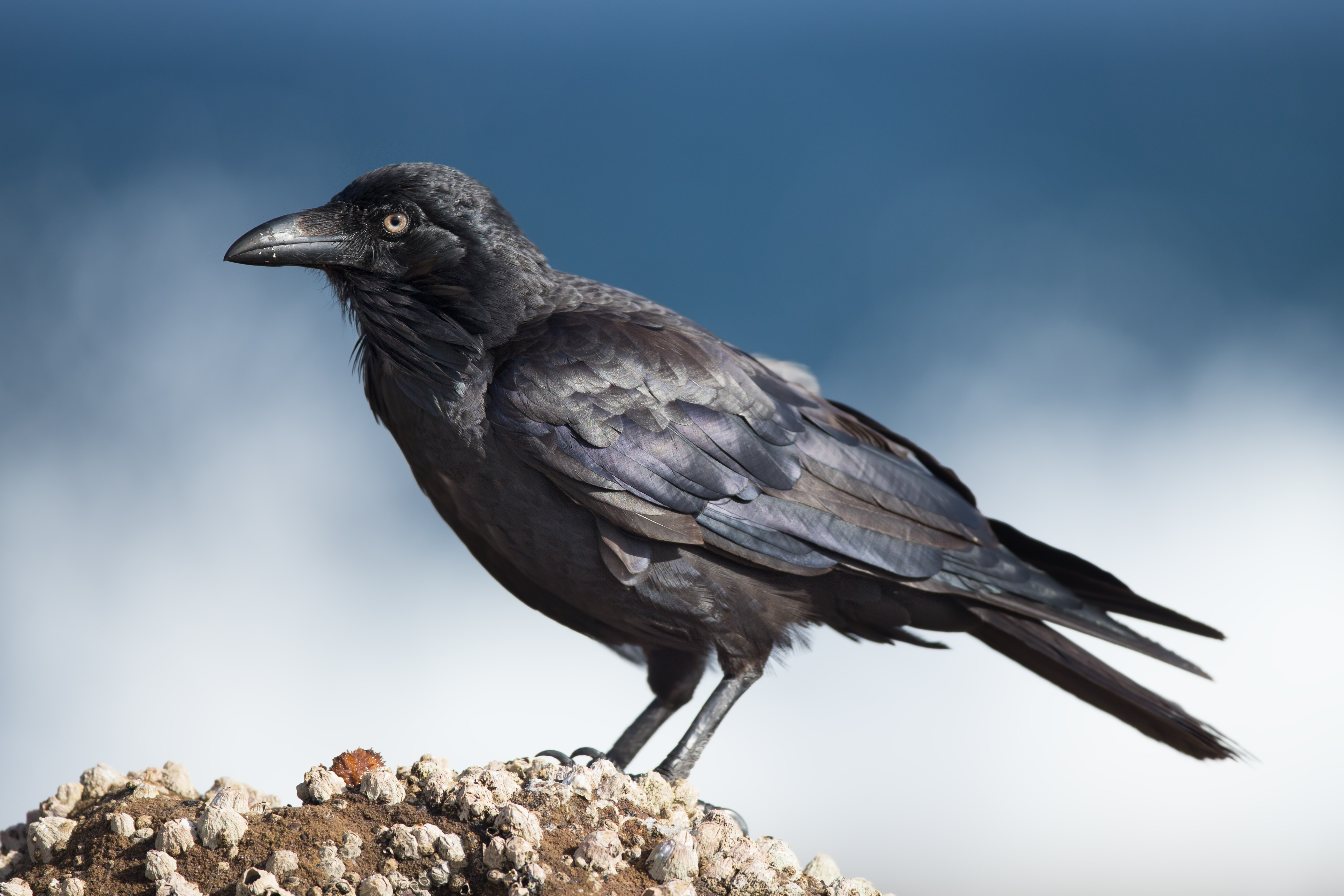 Australian Raven (Corvus coronoides), Doughboy Head, New South Wales, Australia